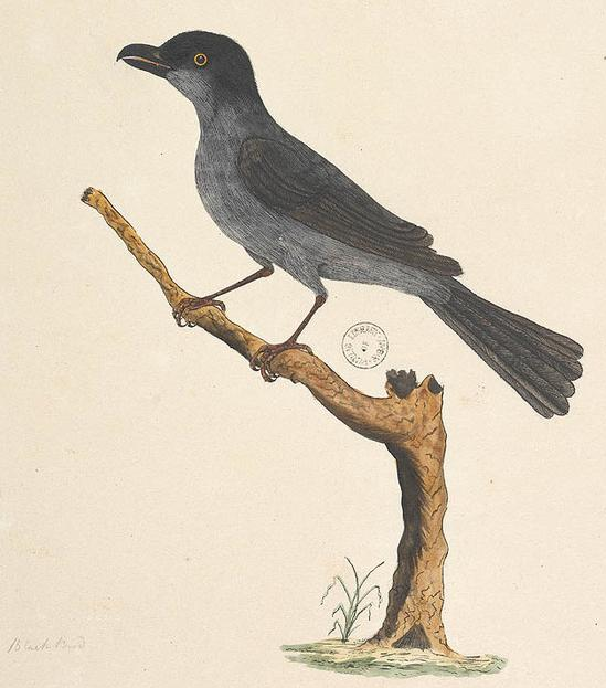 Norfolk Island Tasman Starling (Aplonis fusca fusca), Male ? from Drawings of birds chiefly from Australia, (1791-1792).